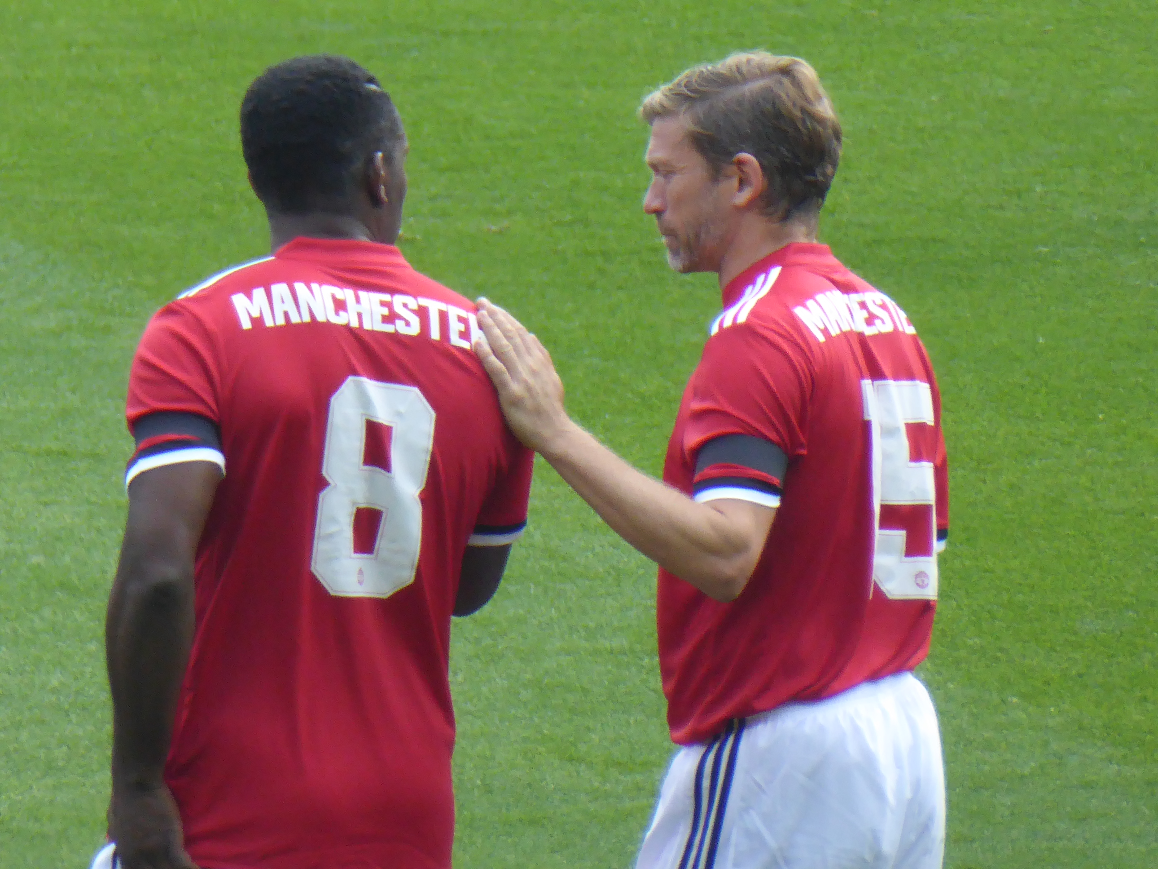 Manchester United Legends v Barcelona Legends (2-2), Friendly, Old Trafford, Manchester, Greater Manchester, England, 2 September 2017